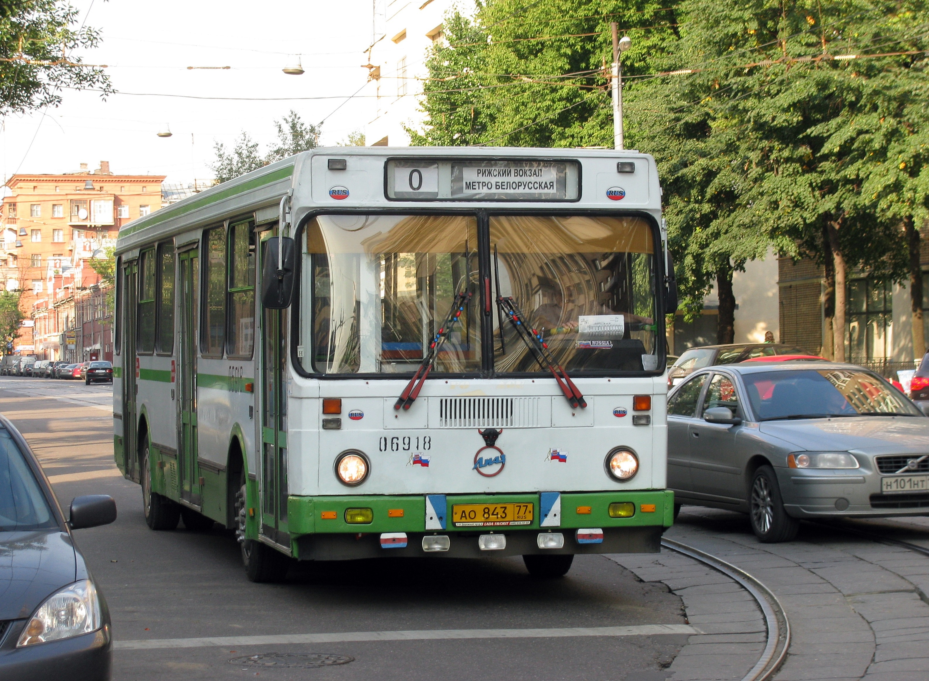 Bus LiAZ-5256.25 #06918 on a compensatory route 0 due to closure of tram services on Lesnaya Street. The beginning of the defunct tram loop is visible.